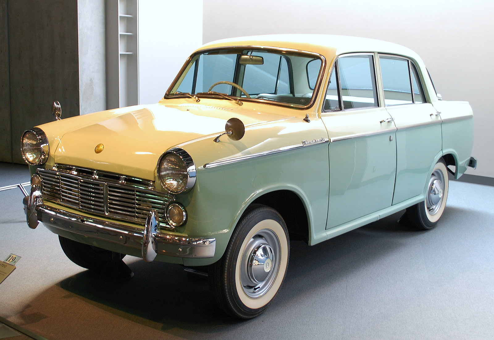 1st generation Datsun_Bluebird Model P312 (1962/8 - 1963/9)